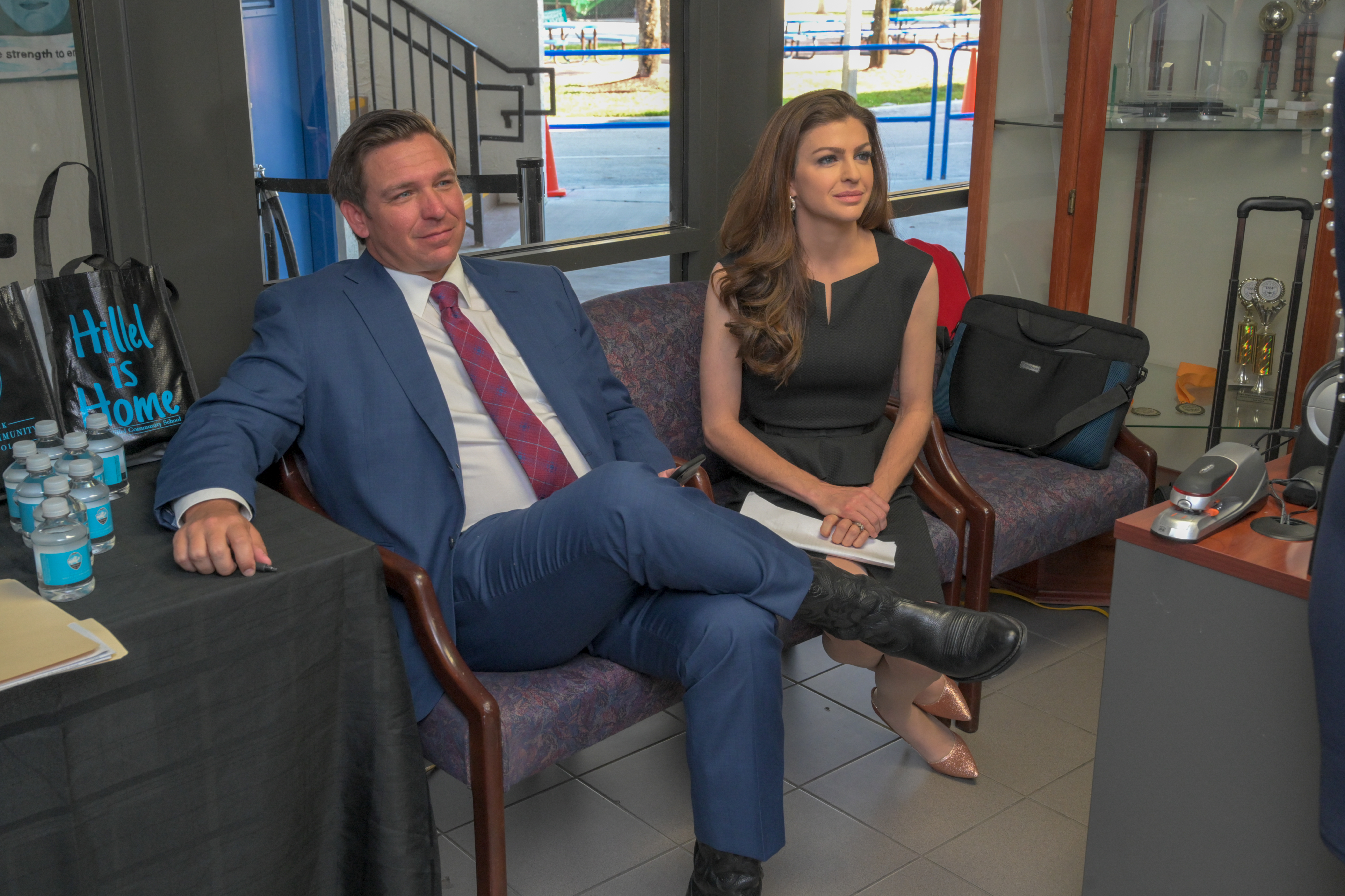 1-14 Supreme Court Nomination